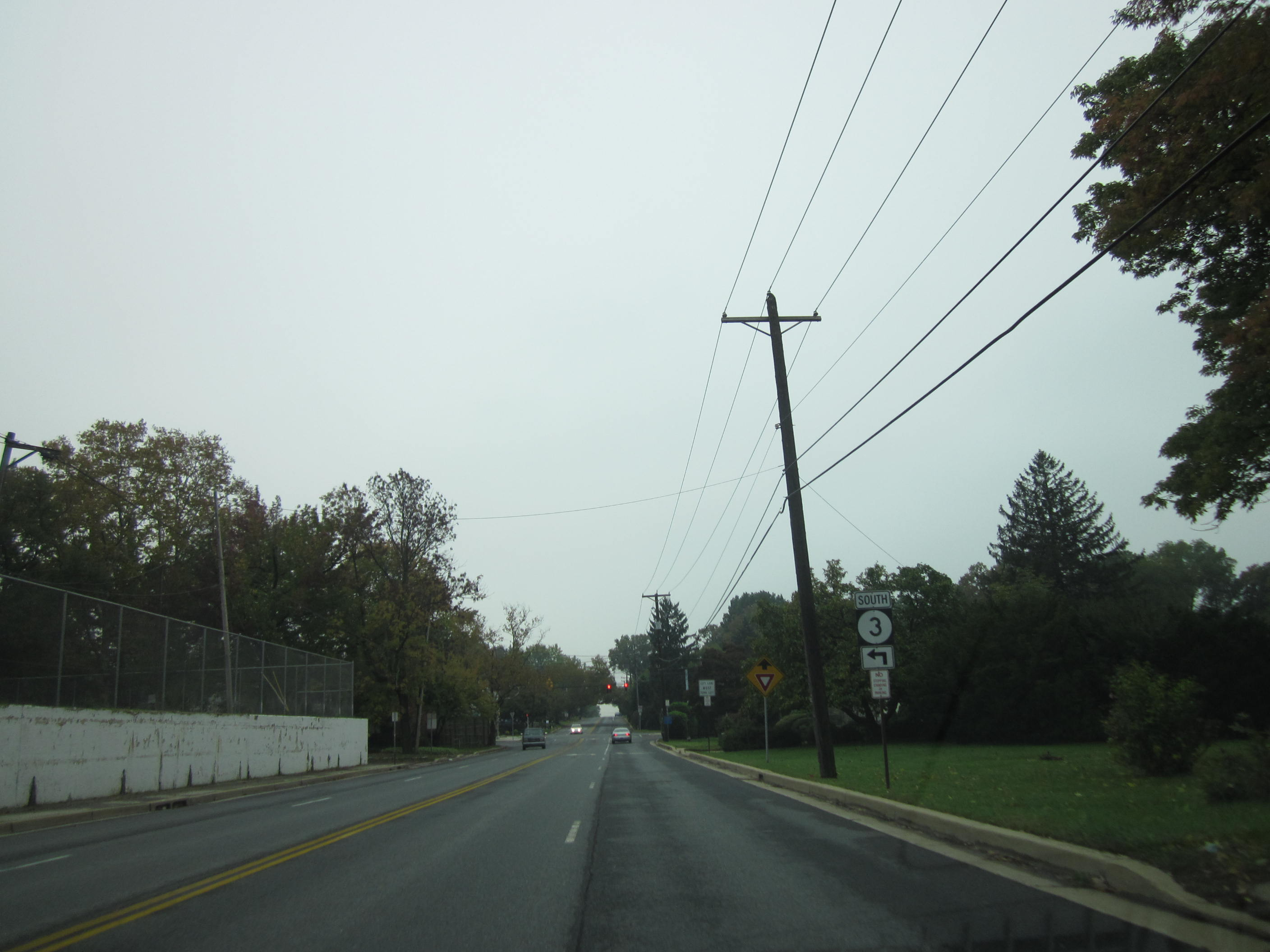 Delaware State Route 3 southbound approaching Washington Street Extension in Bellefonte